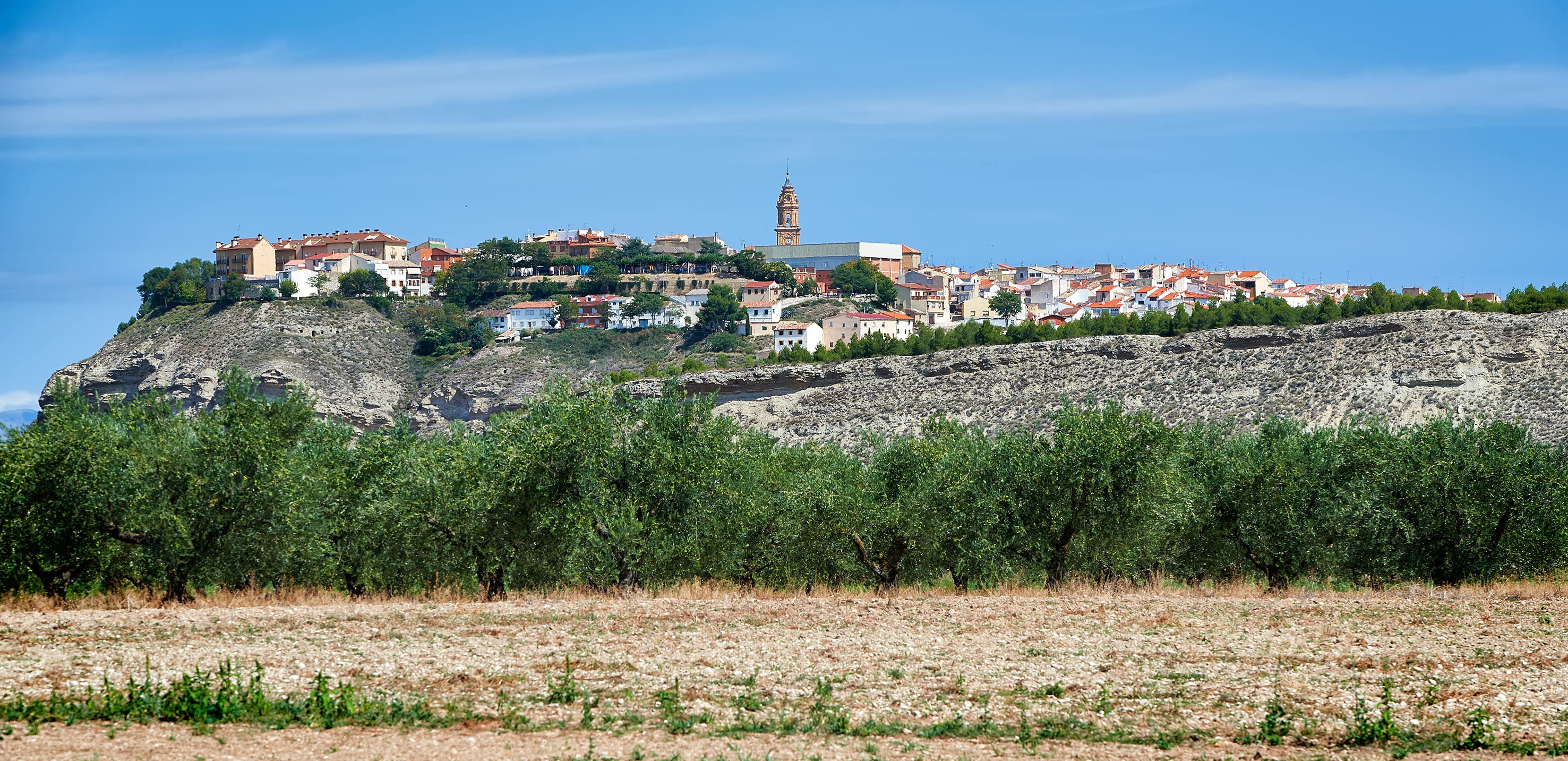 General landscape of Lerin (Navarra, Spain)